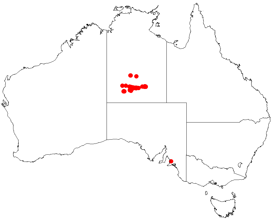 Hakea grammatophylla Occurrence data downloaded from Australasian Virtual Herbarium on 22 November 2018 using